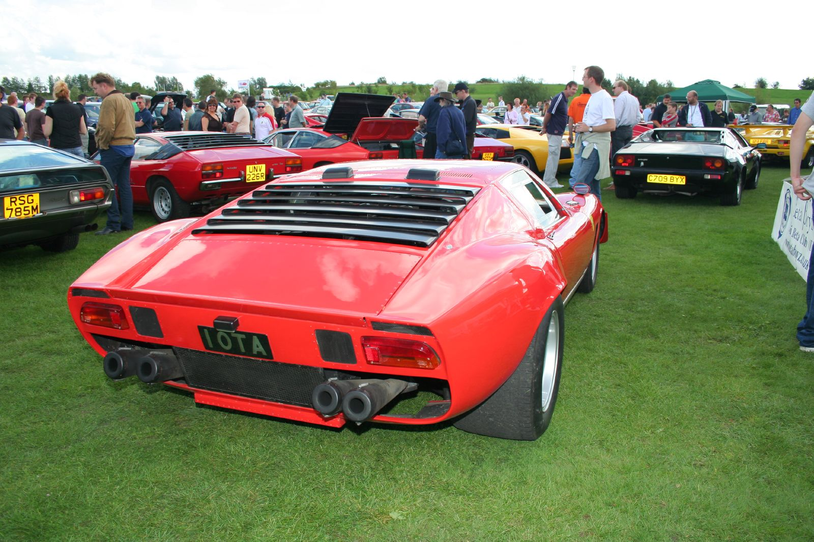 A recreation of the Lamborghini Miura Jota